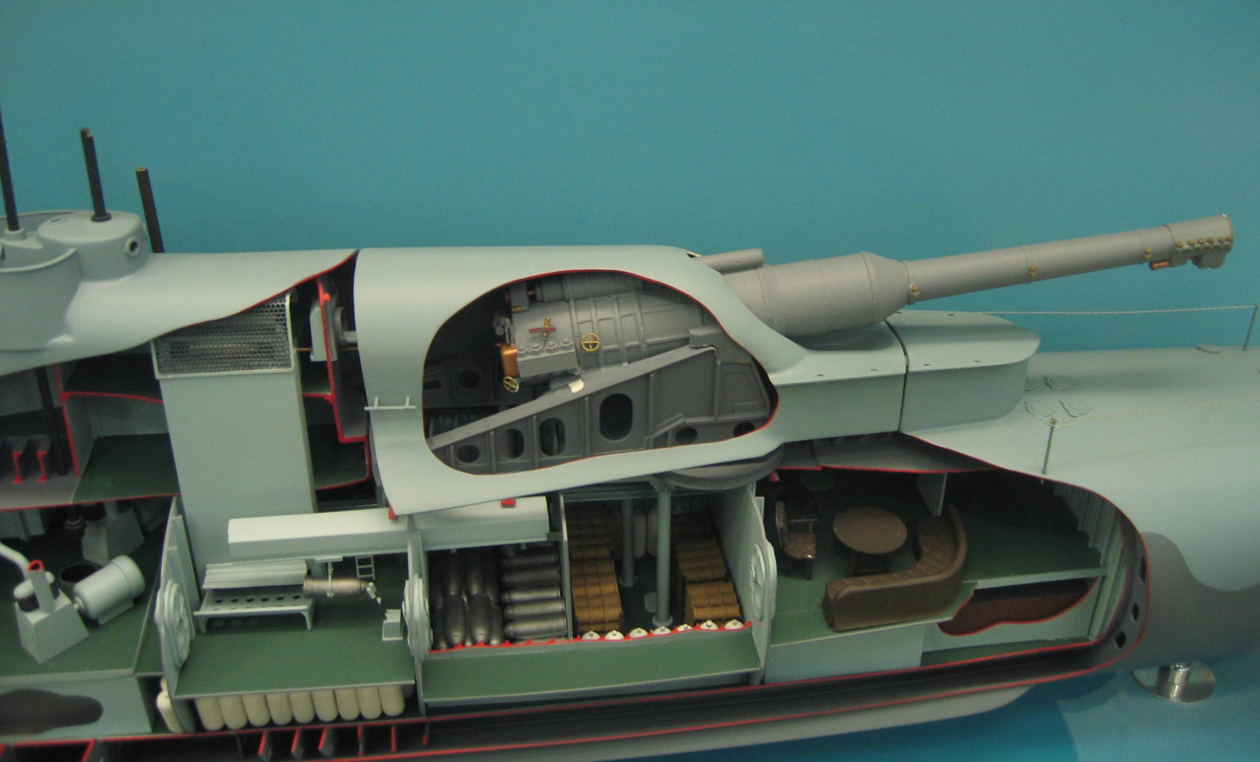 Sectioned model of the British submarine M1, showing the BL 12 inch Mk IX gun turret. Located in the Science Museum, London